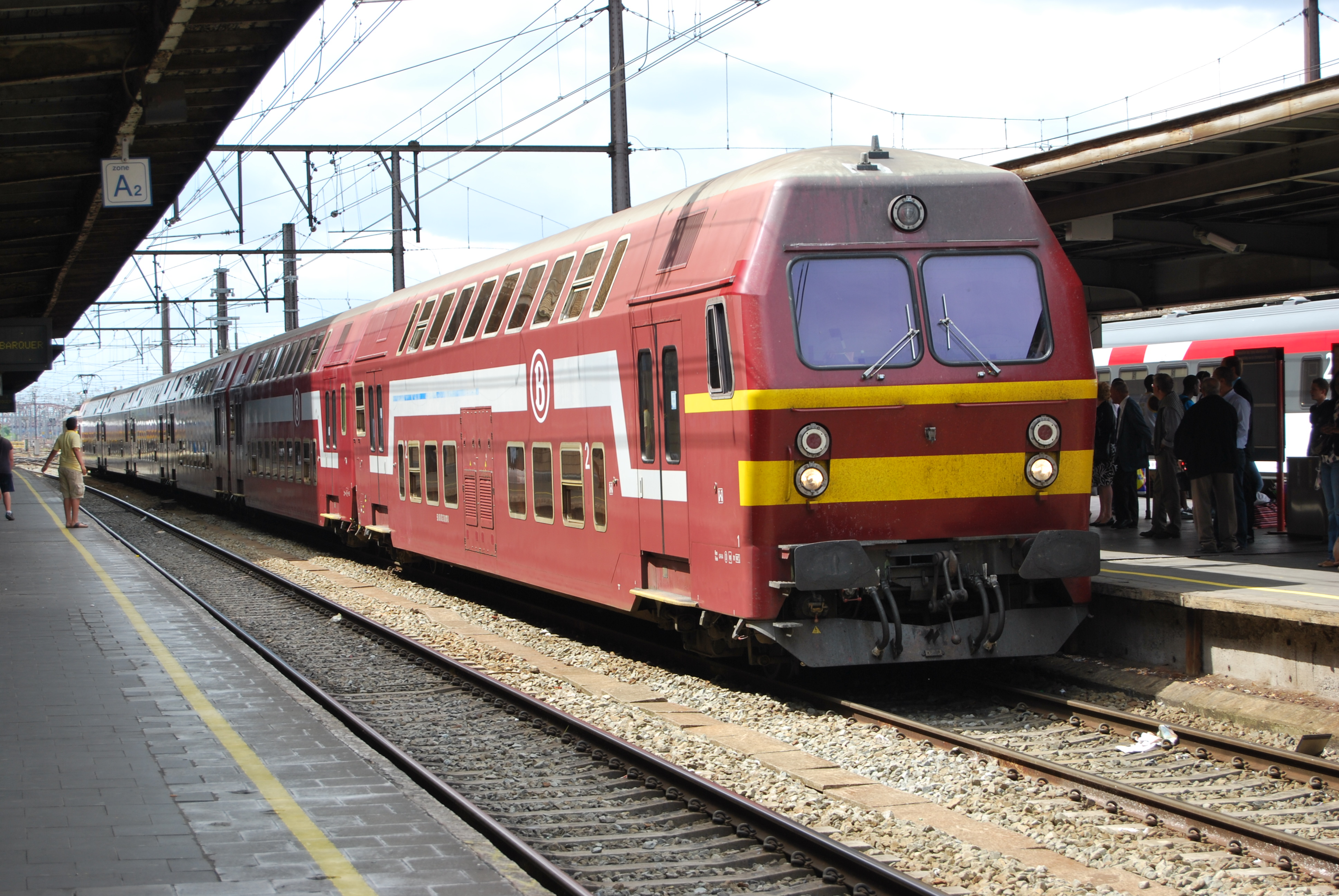 M5 Control car